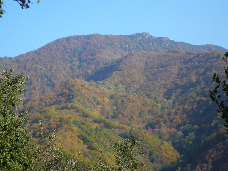 Sant Miquel de Solterra, Guilleries, Sant Hilari Sacalm - Osor, la Selva, Catalunya